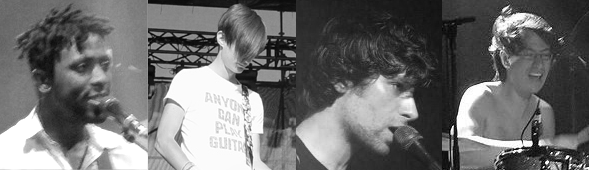 Bloc Party